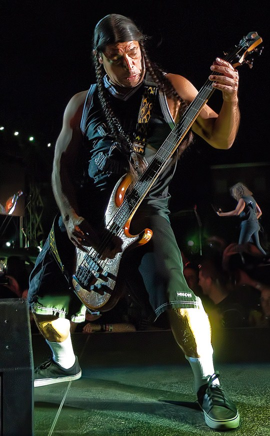 Robert Trujillo, bassist of Metallica, performing live at Sonisphere 2012 in Getafe, Madrid.